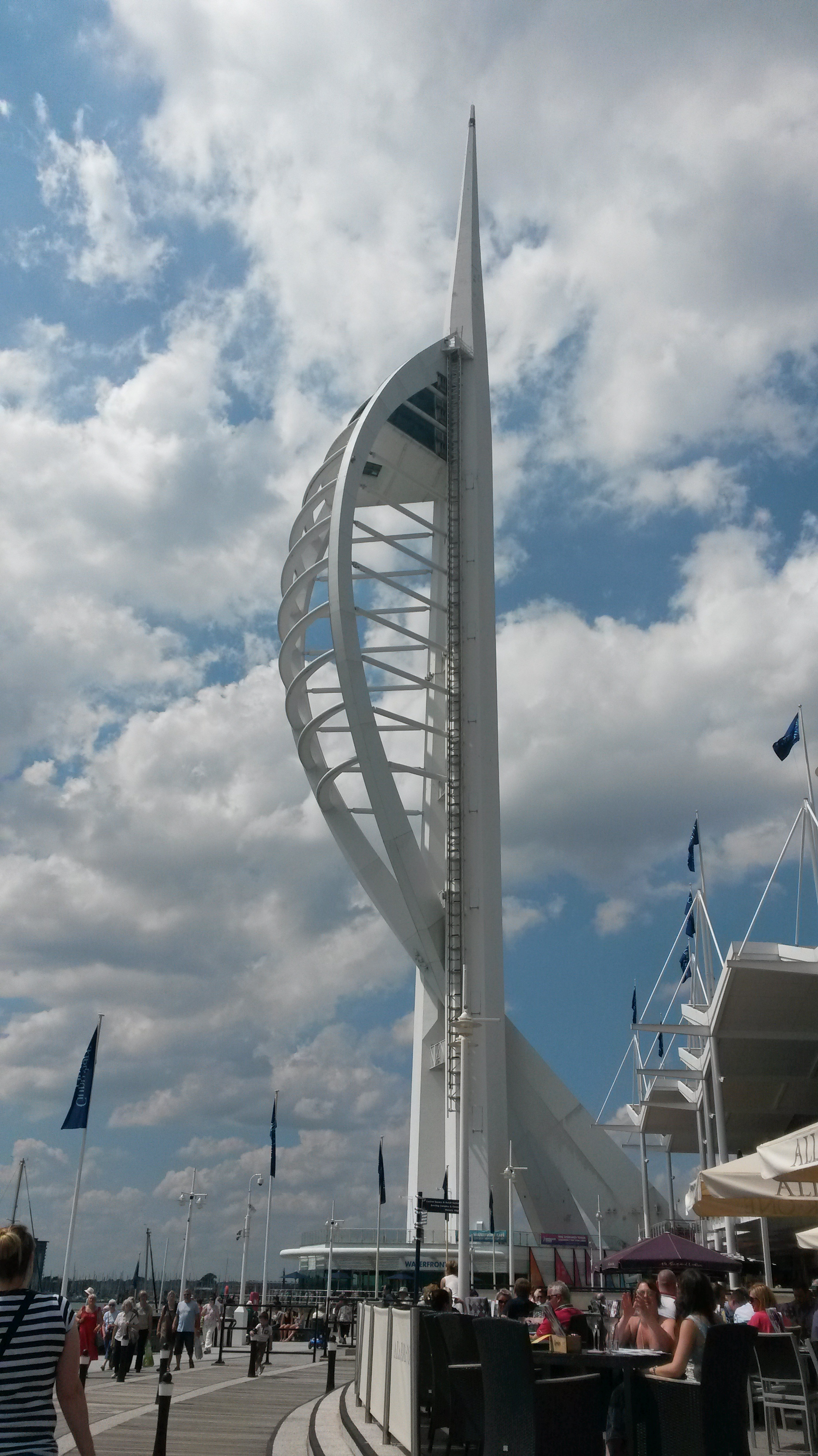 A view from the ground of the Spinnaker Tower in Portsmouth Harbour.